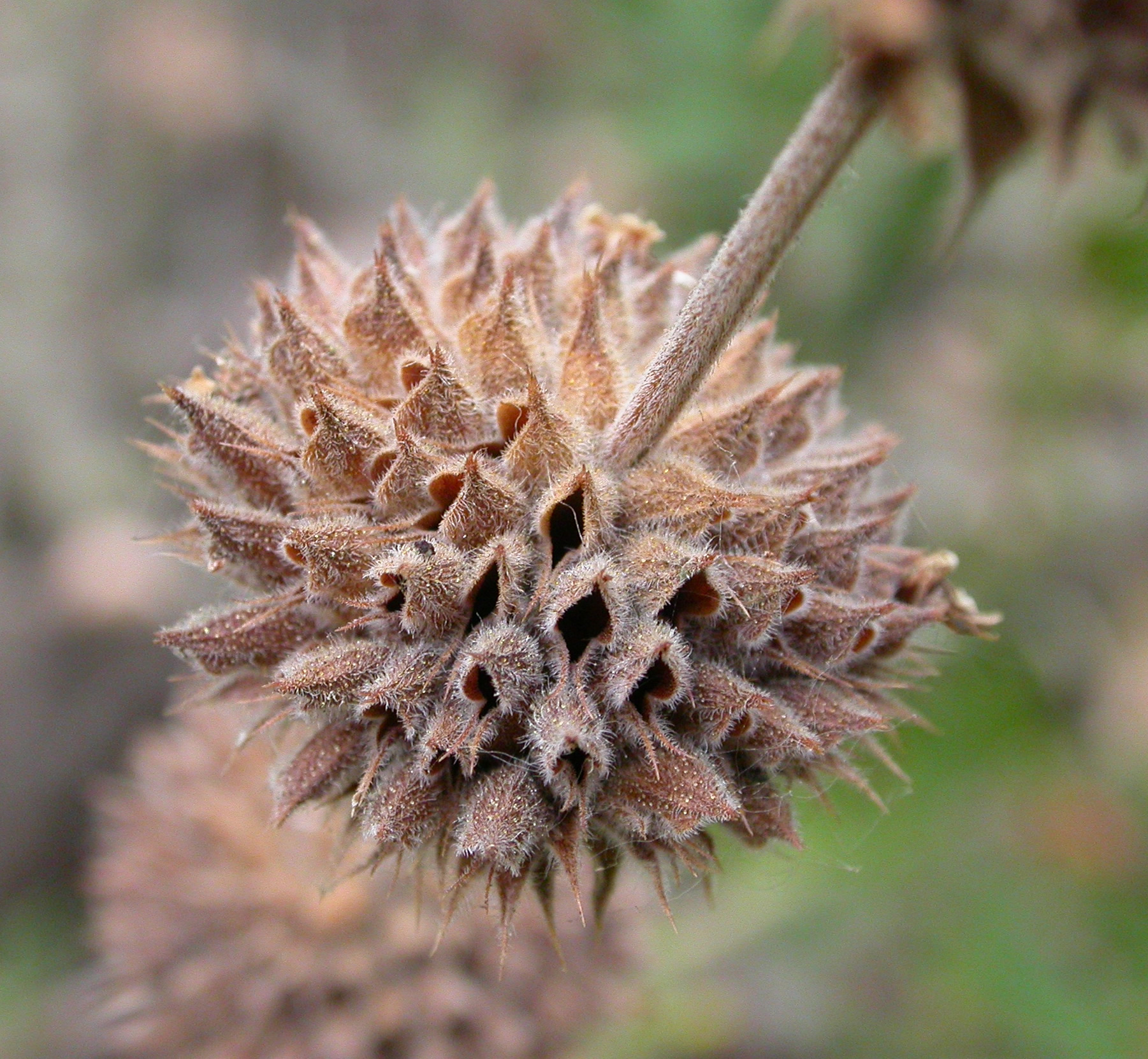 Salvia mellifera Photographed at BioTrek. Contributed and © by Curtis Clark. Licensed as noted.